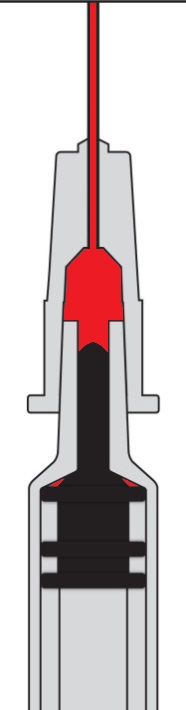 standard high waste needle with a low waste syringe. The design uses a plunger with an extended plunger to push fluid out of the neck of the needle